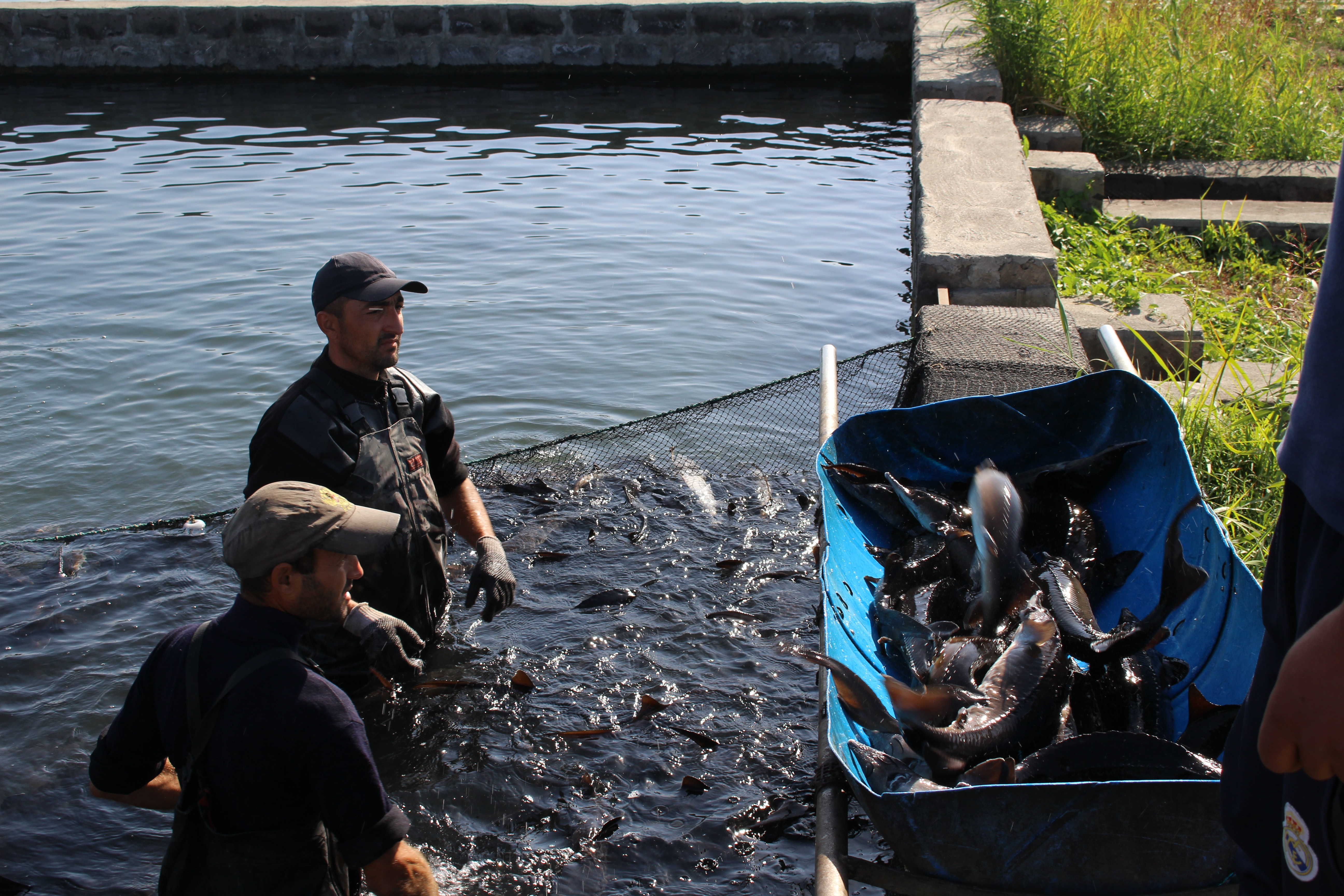 Fish farm in Armenia.